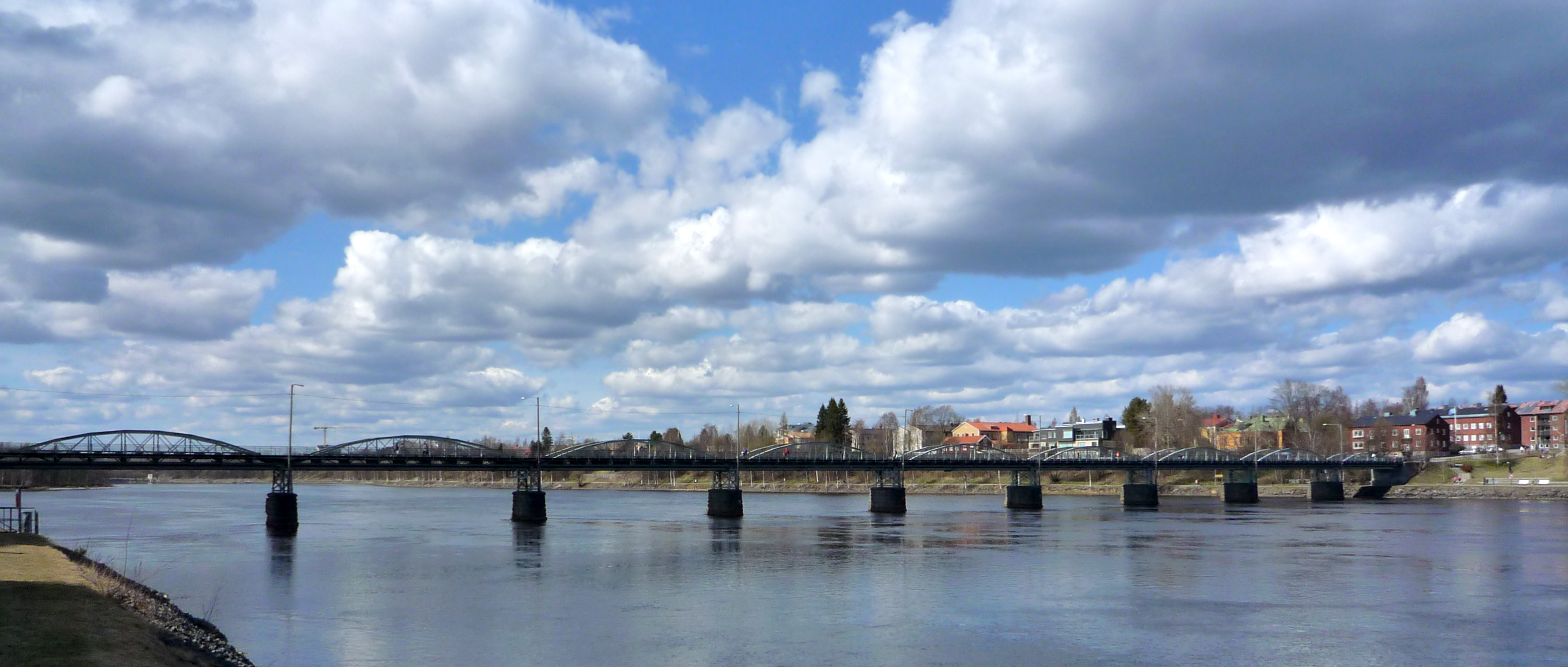 Gamla bron ("Old bridge") in central Umeå; photo to the north, from the south side of Ume river.